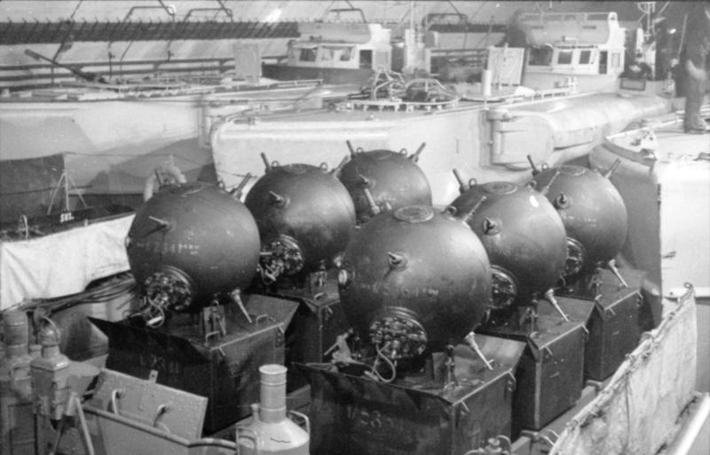 Mines on S-boats in a bunker .. S-boats loaded with sea mines in a bunker